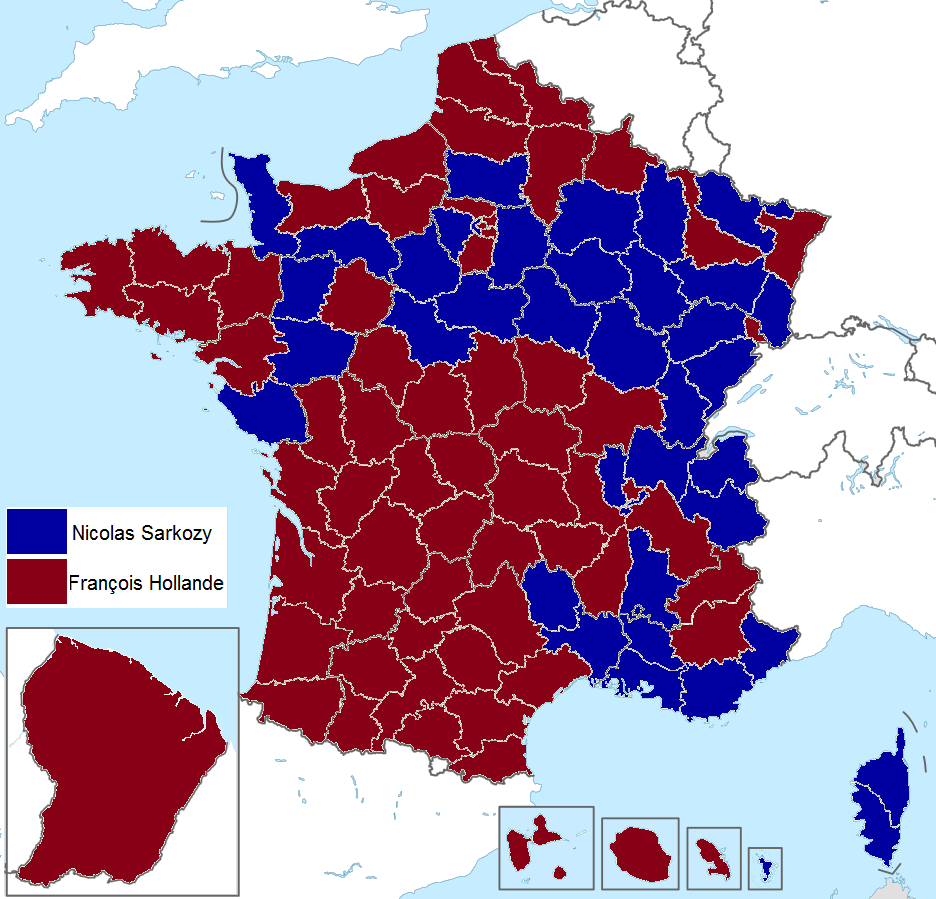 French presidential election (2. round) results (including overseas) by departament, 2007